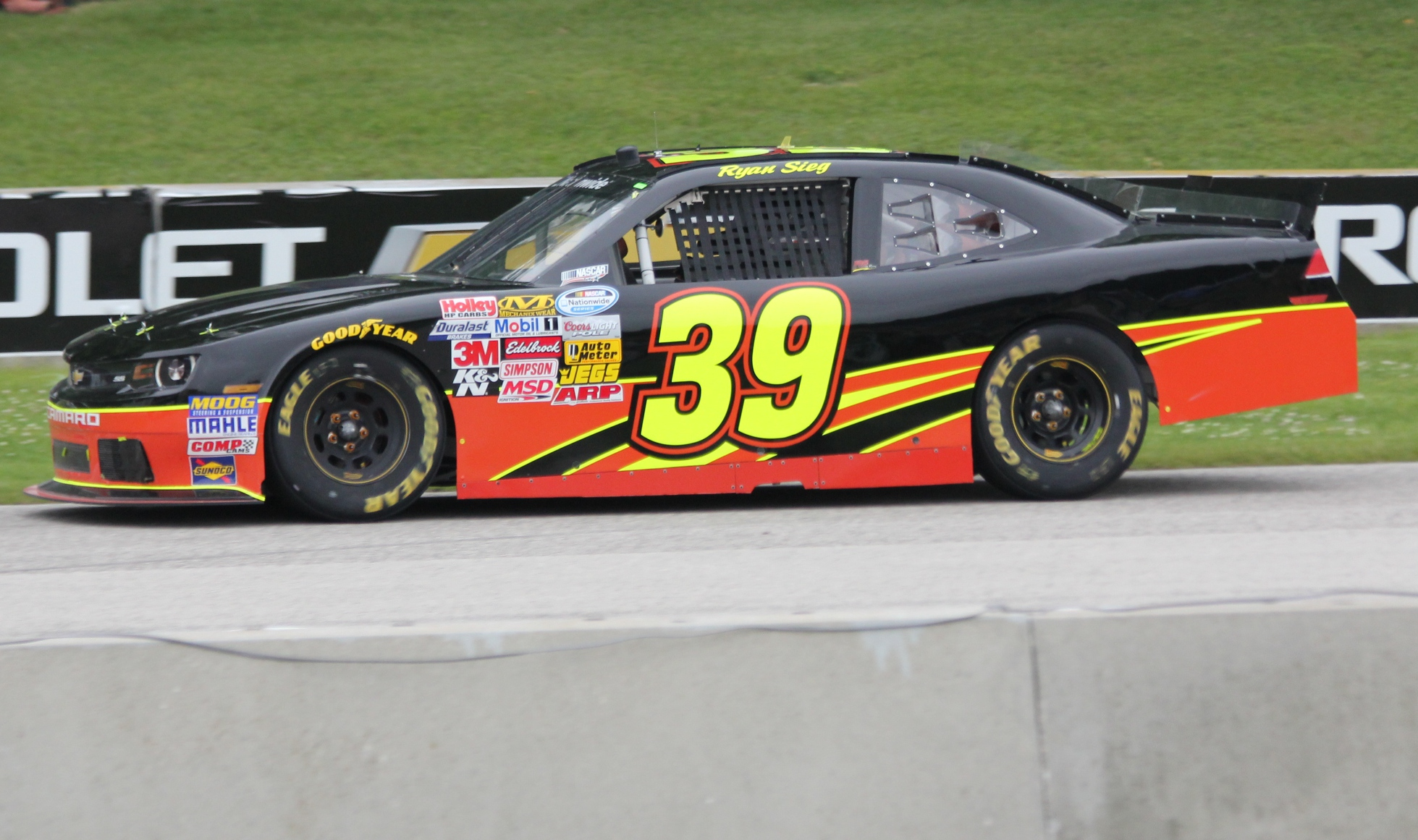 The drivers side of Ryan Sieg Nationwide car during the 2014 Gardner Denver 200 at Road America. Taken racing between turns 5 and 6.